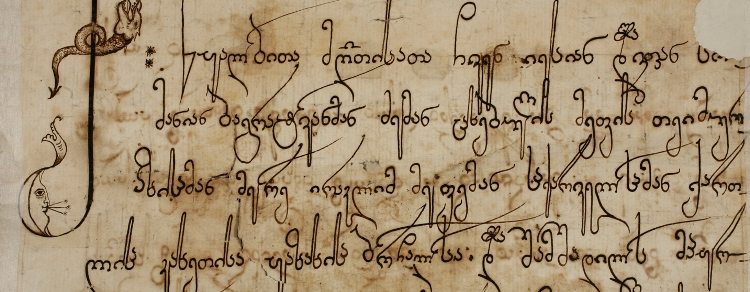 The royal style of King Heraclius II of Georgia:"წყალობითა მღუთისათა ჩვენ იესიან დავითიან სოლომანიან ბაგრატოვანმან ძემან ცხებულის მეფის თეიმურაზისამან მეორე ირაკლი მეფემან საქართველოისამან ქართლისა კახეთისა..." "By the mercy of God, we of Jesse, David, Solomon, Bagrationi, son of anointed King Teimuraz, me, Erekle the Second, King of Georgia, Kartli, Kakheti..."